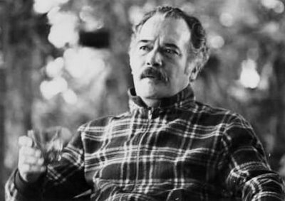 "La casa de las dos palmas"